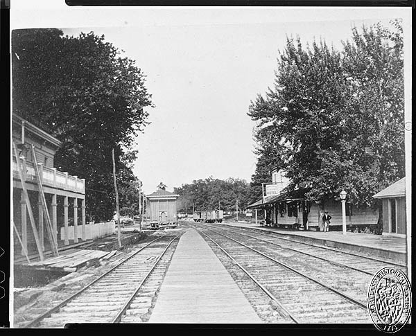 Photo of Annapolis Junction along the Annapolis and Elk Ridge Railroad from ~1900